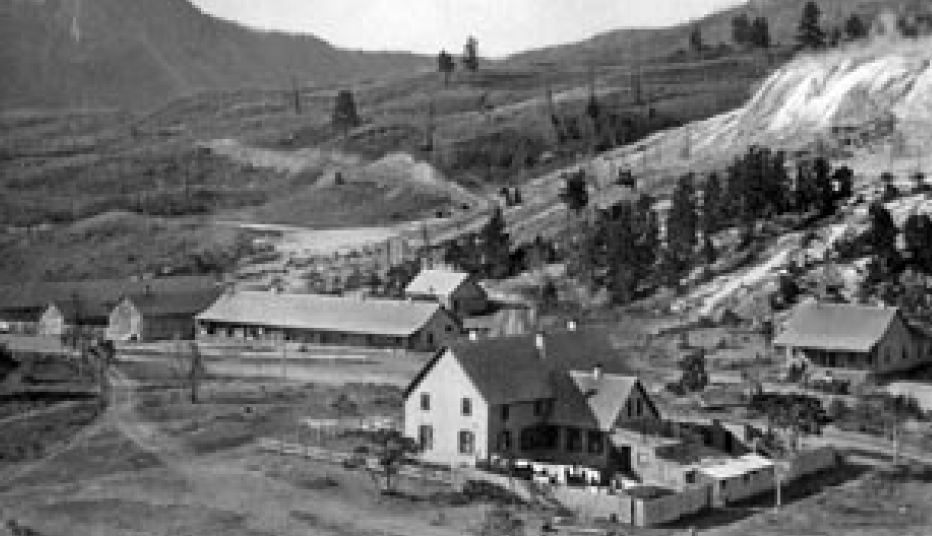 Camp Sheridan, 1900, Yellowstone National Park - extracted from cite report |author=Kiki Leigh Rydell |coauthor=Mary Shivers Culpin |title=Managing the Matchless Wonders-History of Administrative Development in Yellowstone National Park, 1872-1965 |publisher=National Park Service, Yellowstone Center for Resources |year=2006 |docket=YCR-CR-2006-03 |url=